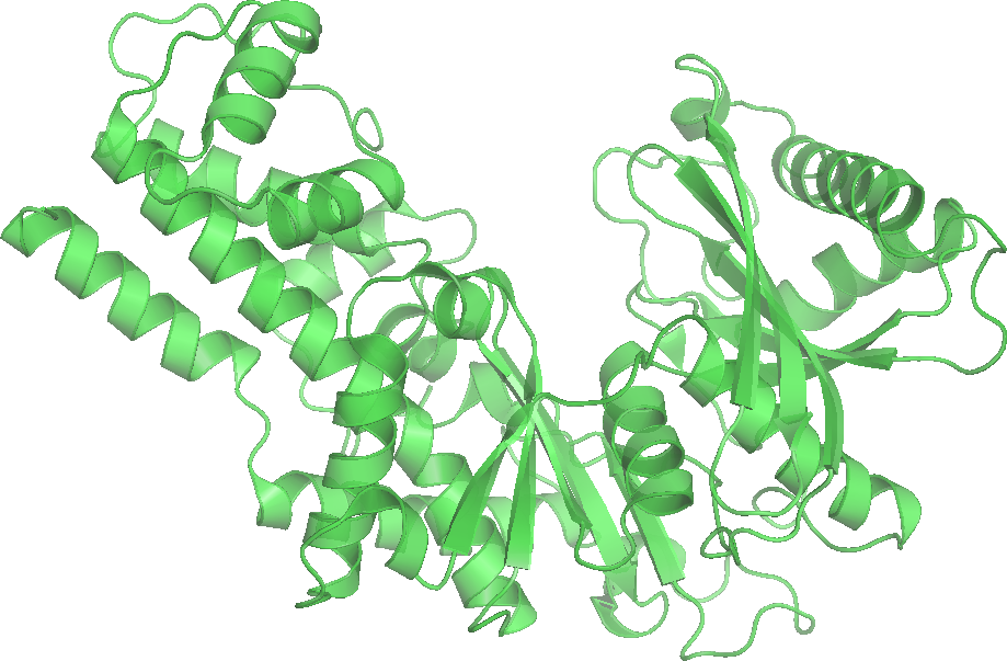 By Richard Wheeler (Zephyris) 2006. For the metabolic pathways wikiproject.